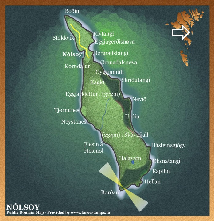 Nólsoy, Faroe Islands